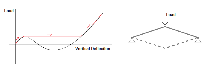 Load-deflection diagram showing limit point instability